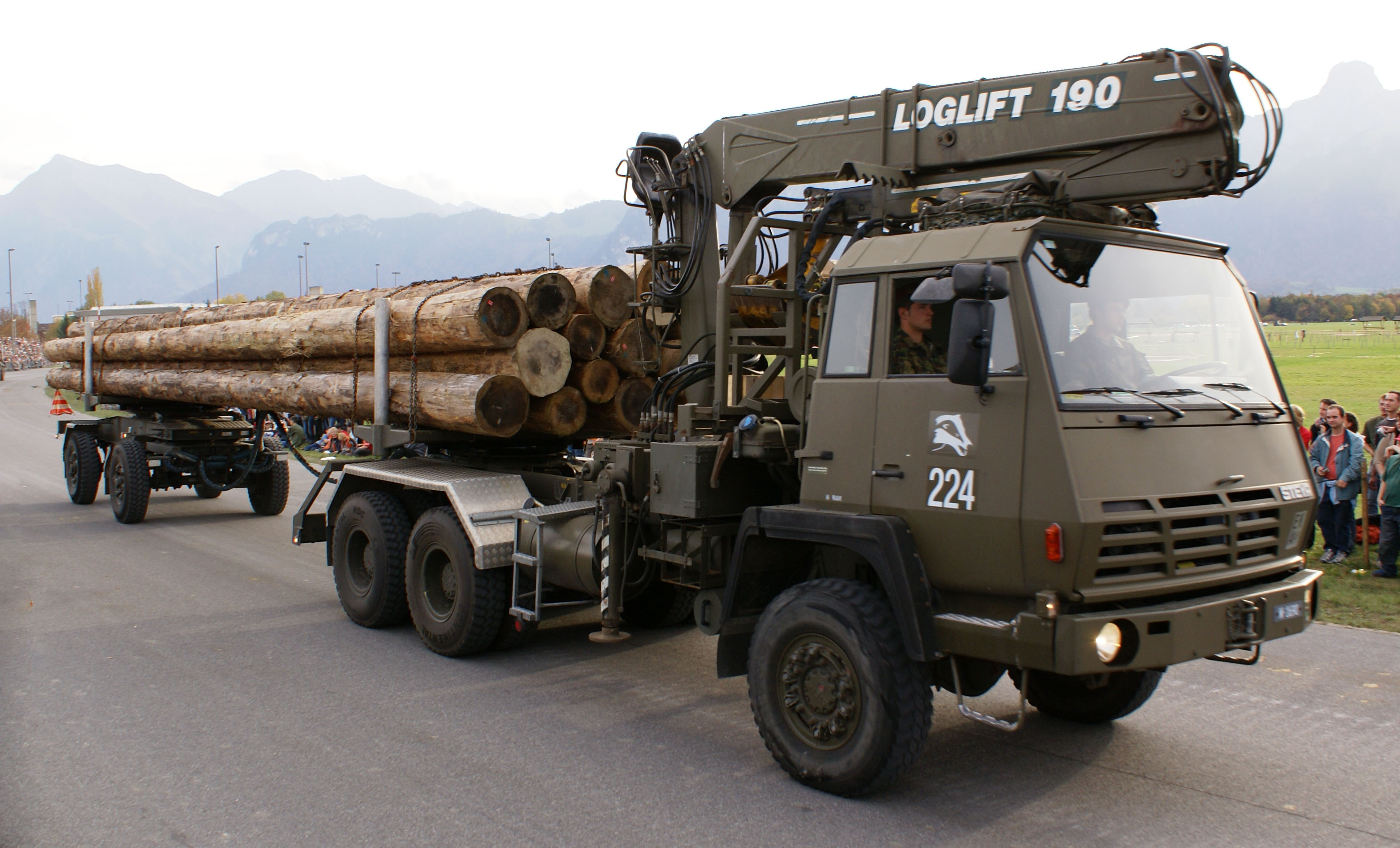 Swiss Army. Steyr long items transport truck. Participating in the "Steel Parade" of the 2006 Army Days (Heerestage 2006), Thun.